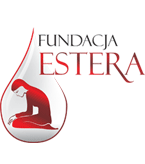 Logo of the Estera-Fund